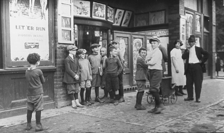 Boys in front of the movie theatre on Dundas Street, Toronto, Canada. The silent film showing in the theatre, Let 'Er Run, starred Dorothy Devore and George Stewart and had been released almost a year earlier, in October 1922.